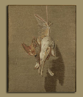 "An extremely rare and important embroidered crewel wool picture or 'needle painting' (as they were called at the time) by Mary Linwood. This picture is recorded in 1798 at an Exhibition of Miss Linwood's Pictures in Needlework at the Hanover Square Concert Rooms, No. X."